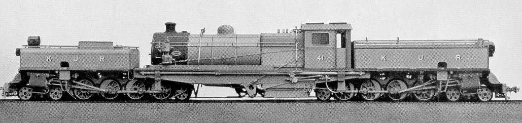 Beyer, Peacock and Company works photo of Kenya-Uganda Railway EC class locomotive no. 41(side view)